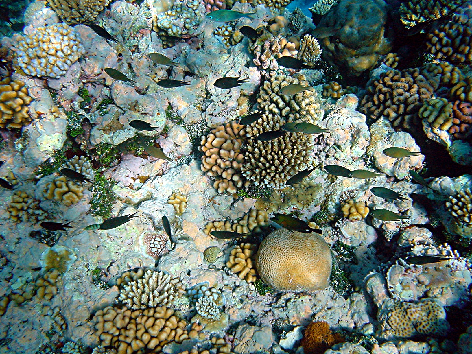 Coral reefs in Papua New Guinea